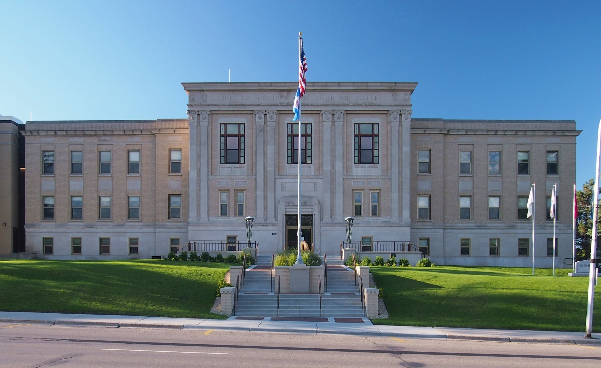 Pope County Courthouse, 130 E. Minnesota Ave., Glenwood, Minnesota, USA. Viewed from the north.